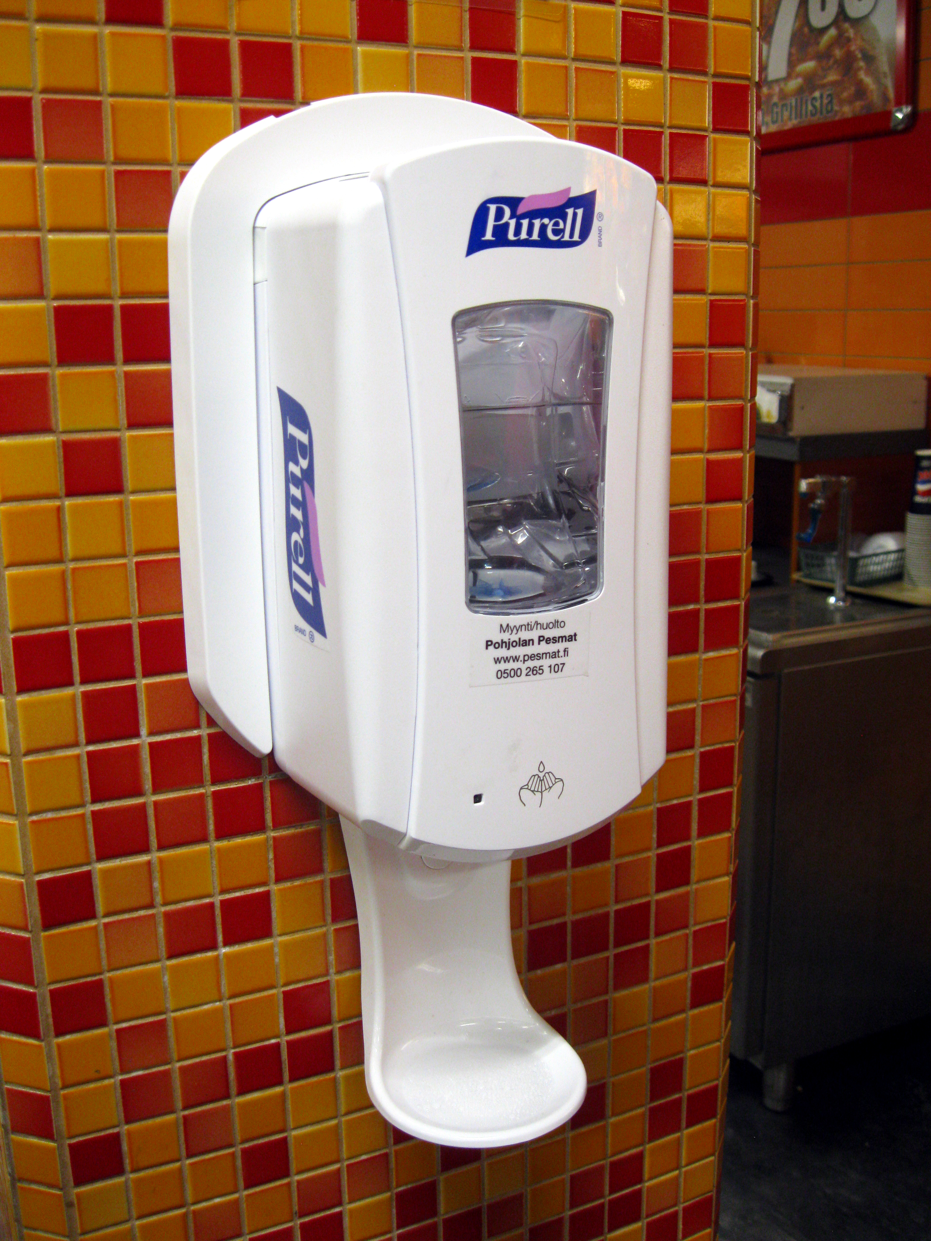 Hand disinfectant machine.